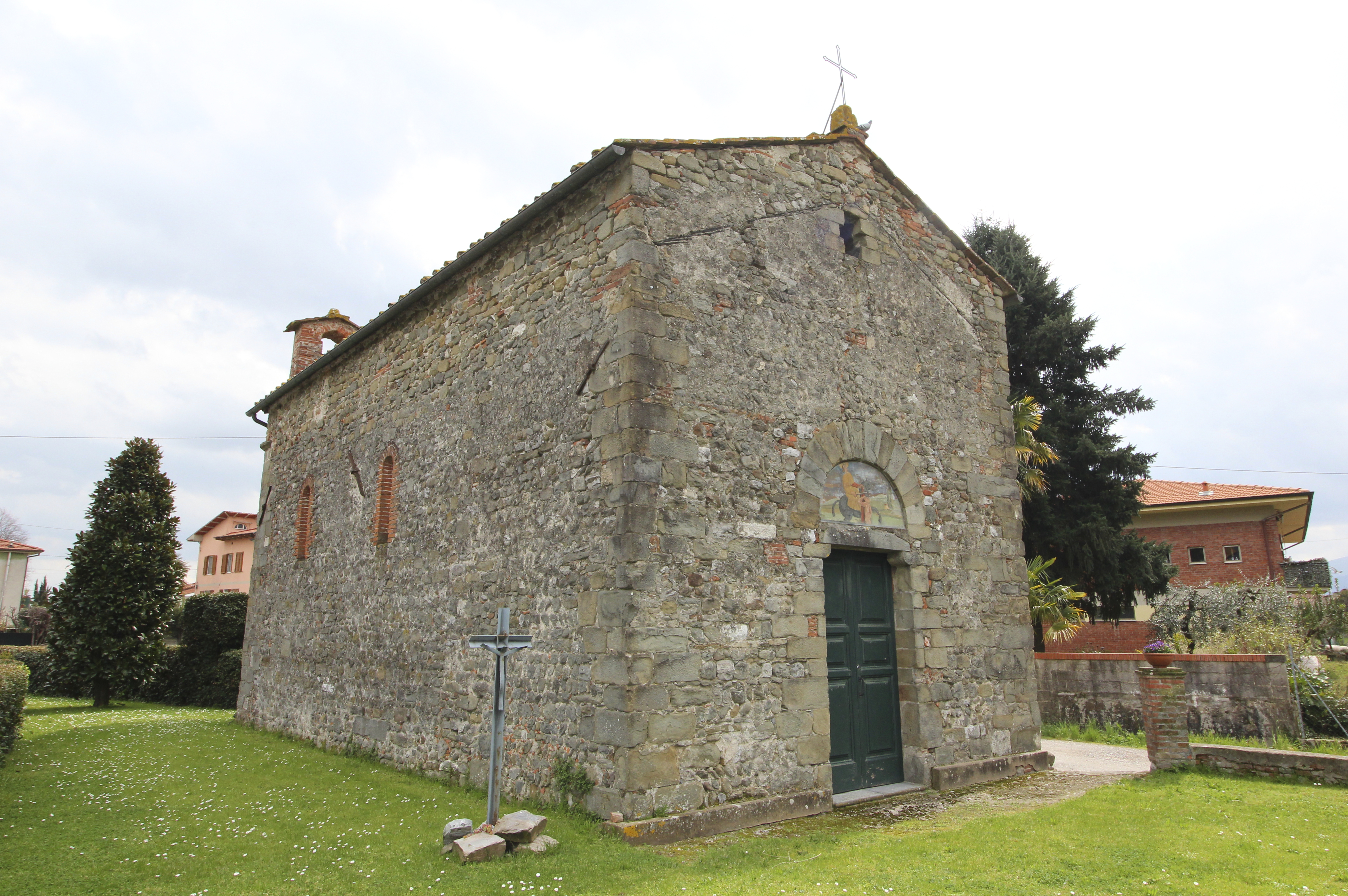 Church San Michele in Ducentola, Marlia, hamlet of Capannori, Province of Lucca, Tuscany, Italy